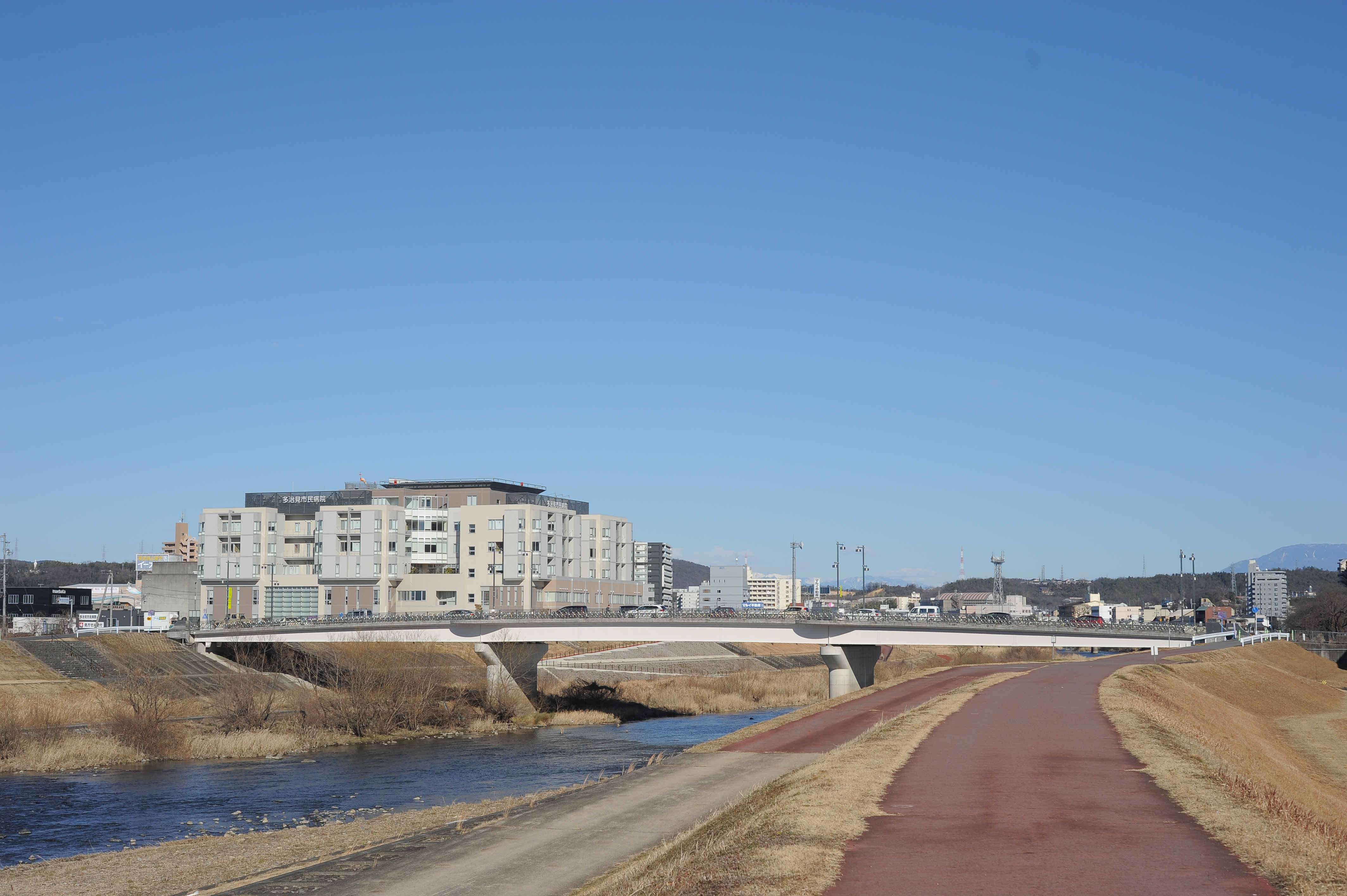 Kuninaga Bridge, Tajimi, Gifu